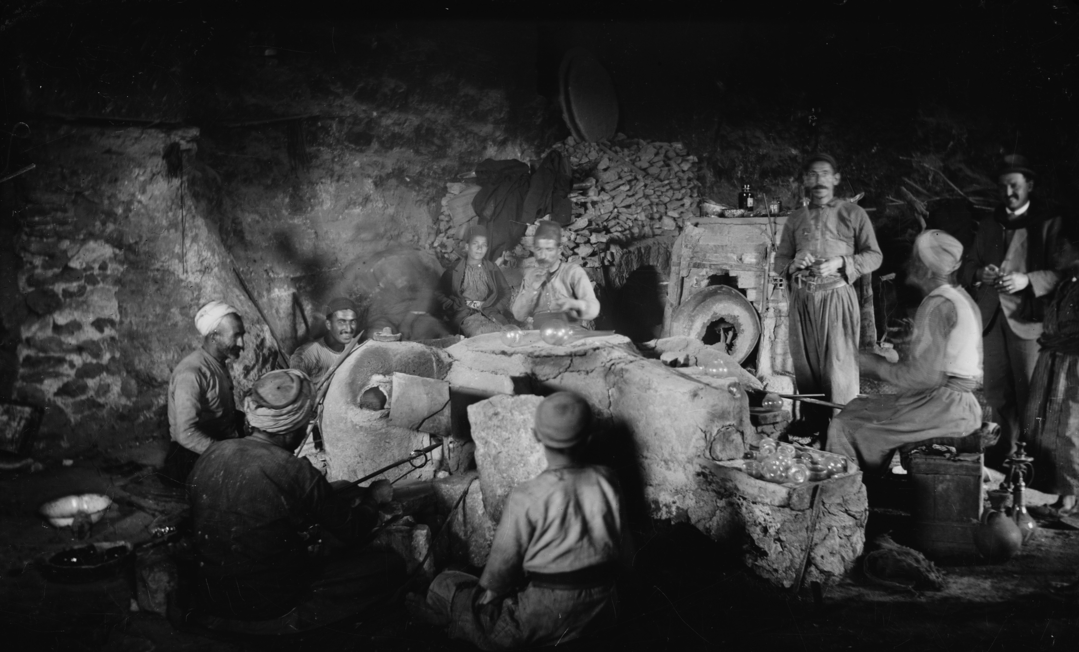 Road to Hebron, Mar Saba, etc. Glass works.